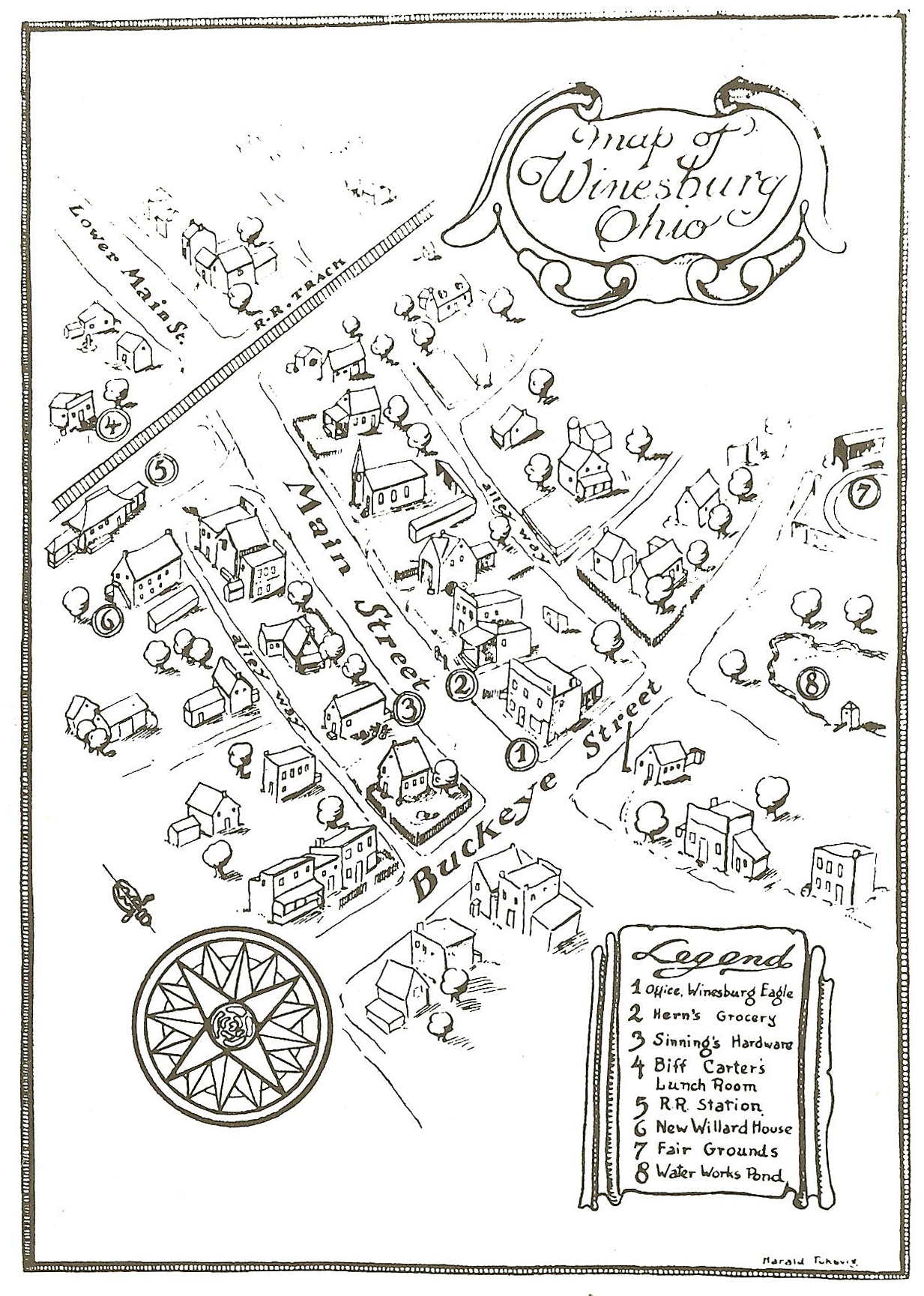 Map of the town Winesburg, Ohio from the first edition of Sherwood Anderson's book of the same name.